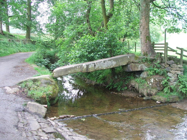 Clapper Bridge Over Wycoller Beck. Animals and vehicles cross the beck via the ford.